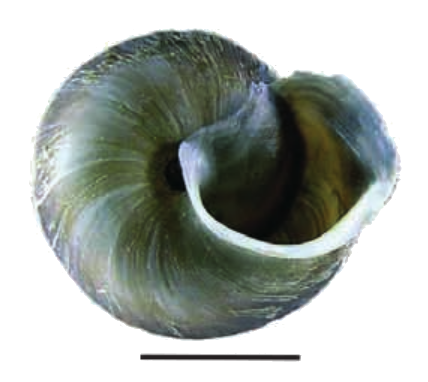 Photo of an umbilical view of a shell of Pseudiberus chentingensis, ZMIZ00163, specimen 1. The scale bar is 10 mm.